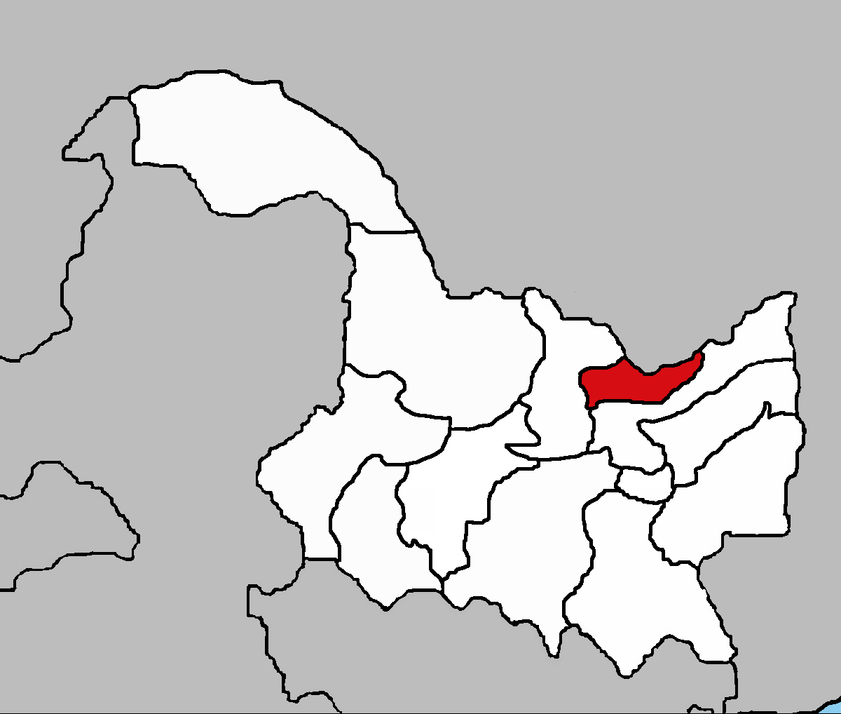 Locator map of Hegang — in Heilongjiang Province, northeast China.